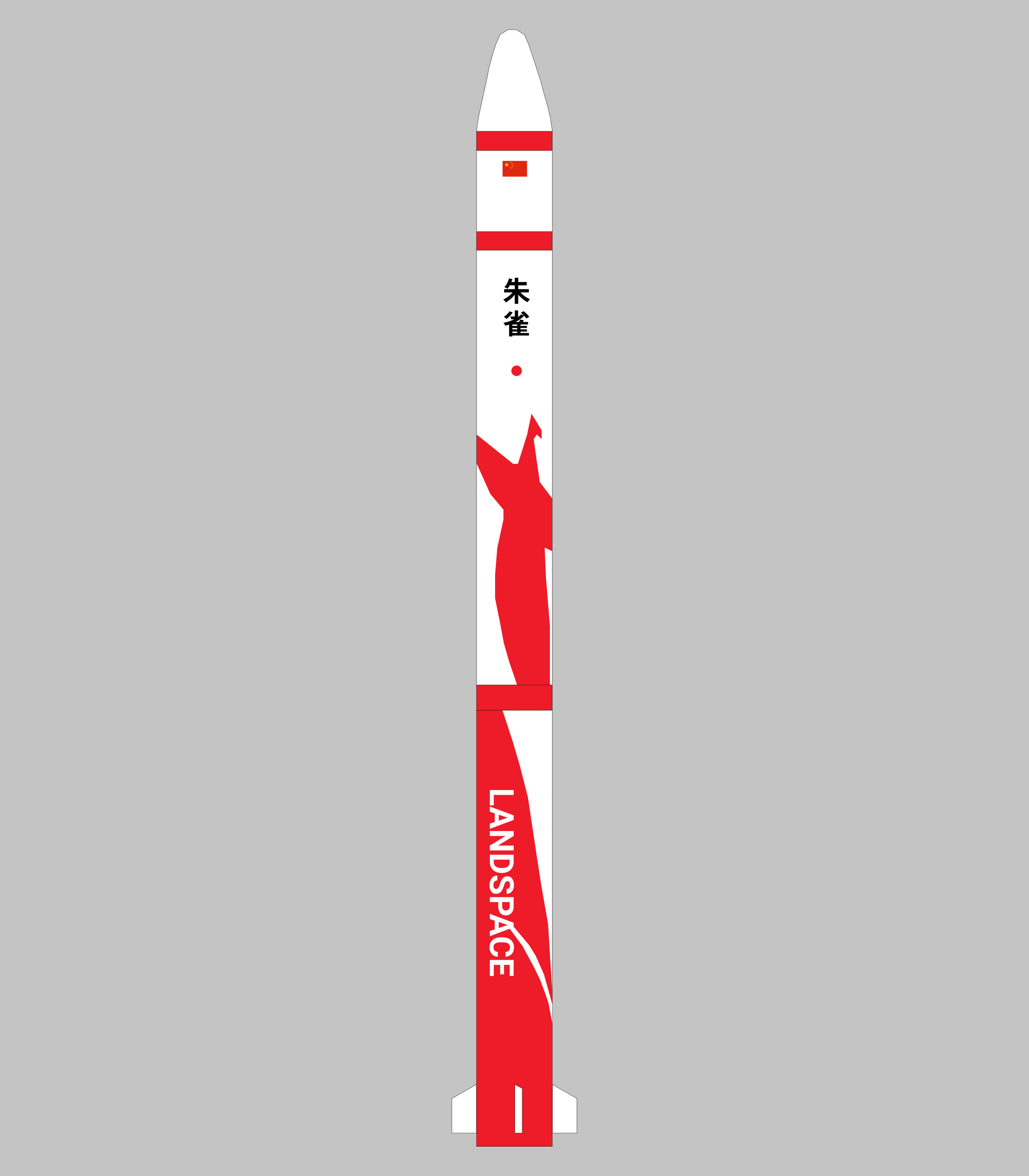 A schema of the small launcher from the Chinese company LandSpace.